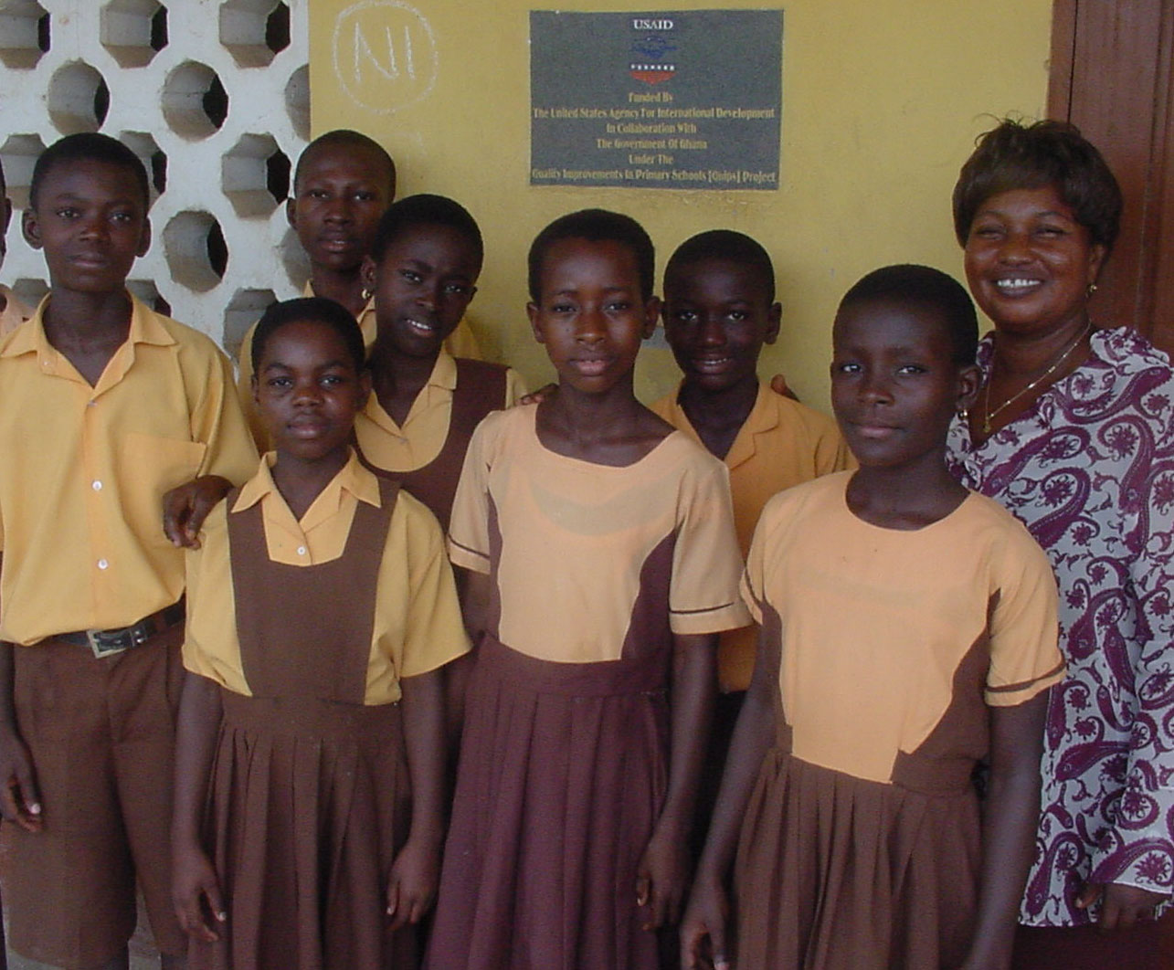 Headmistress and primary school students in Ghana